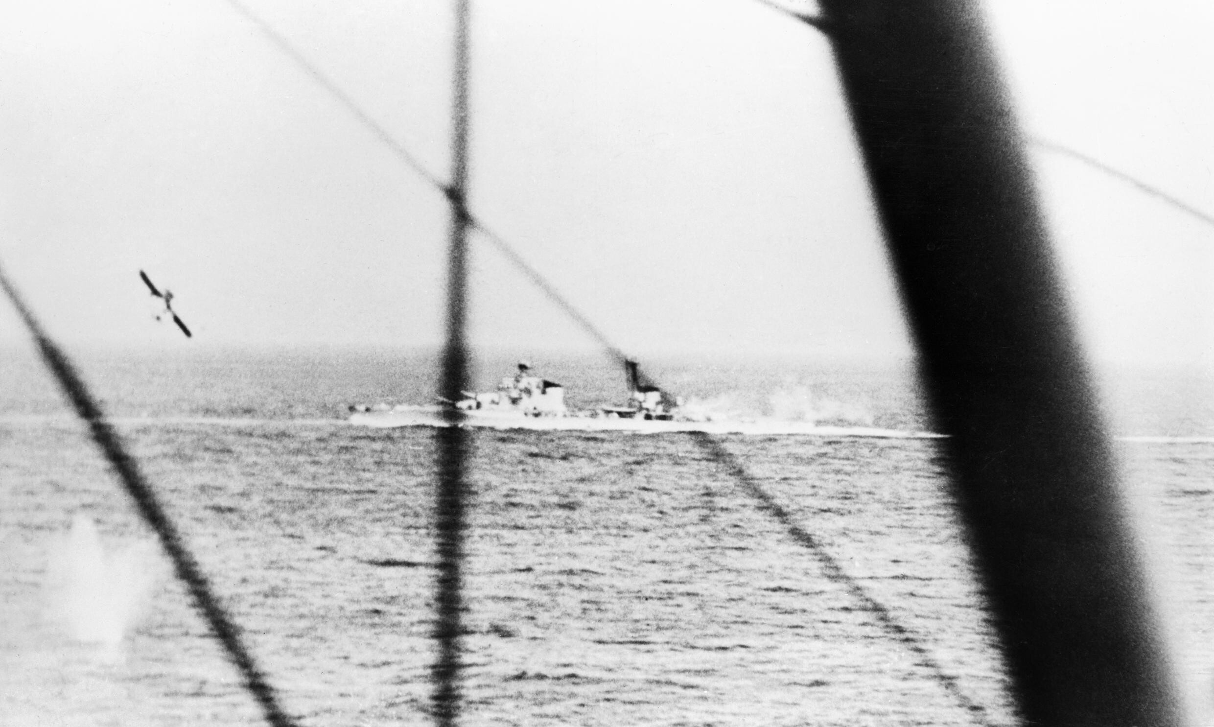 Battle of Matapan. 27 March 1941, Aerial Photograph. Lt (A) Clifford's torpedo being released, as seen by Mid (A) Wallington, Observer in second aircraft.